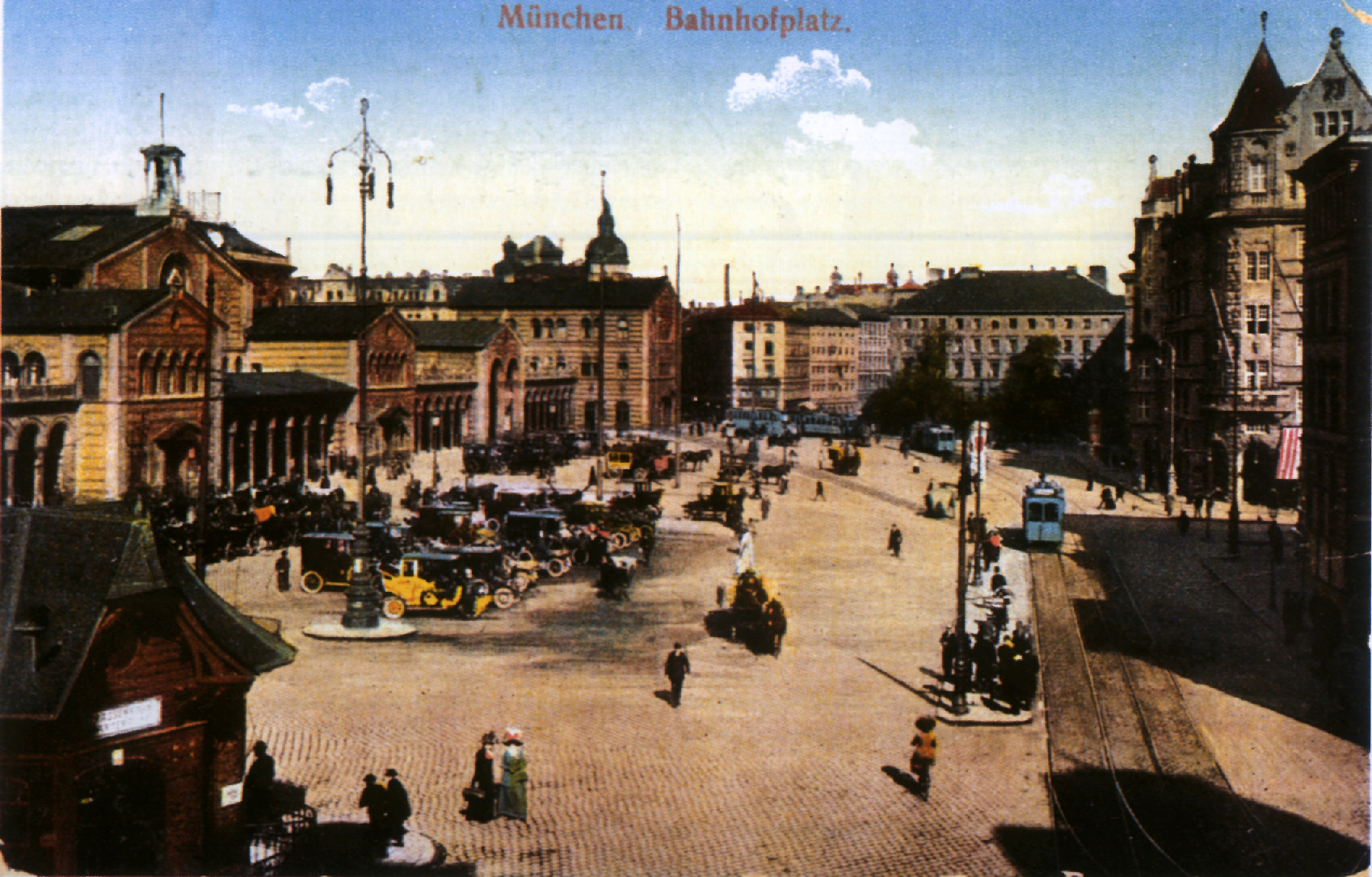 The place in front of the Munich central station (left side of the picture) in 1900. Coloured postcard.